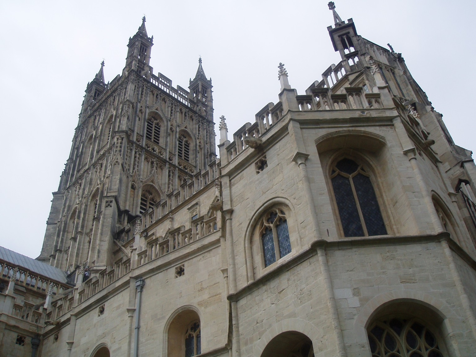 Gloucester cathedral; picture taken in June 2005.